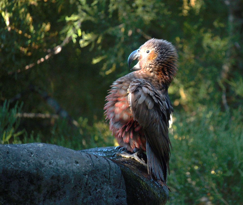 Young kaka at Peacemaker fountain